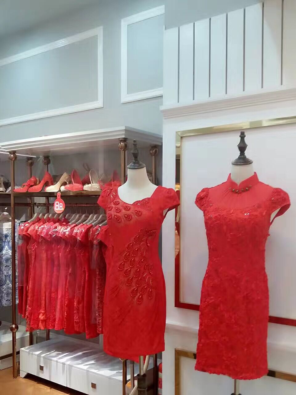 A Cheongsam shop